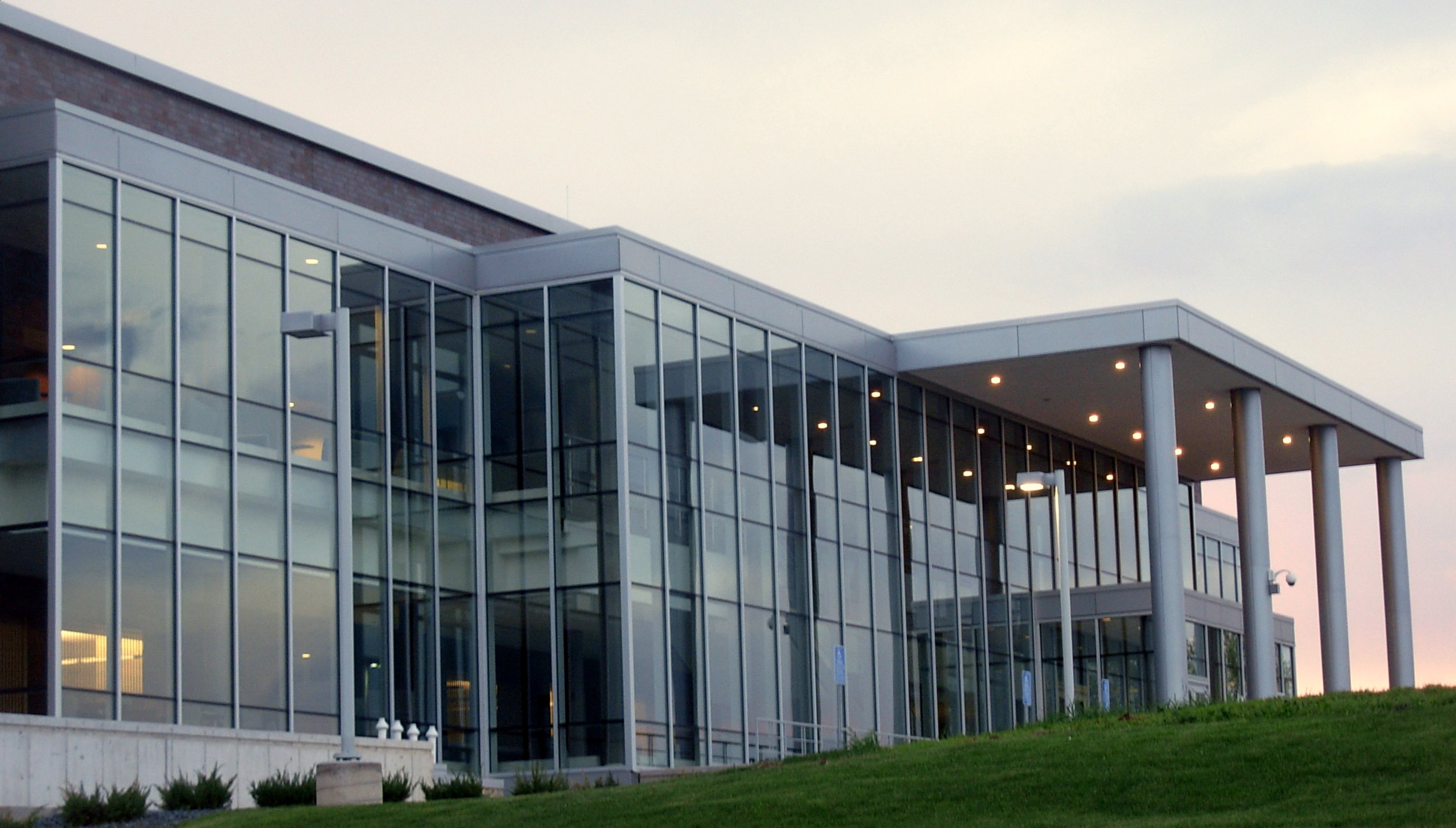 Pine County Courthouse at sunset in Pine City, Minnesota